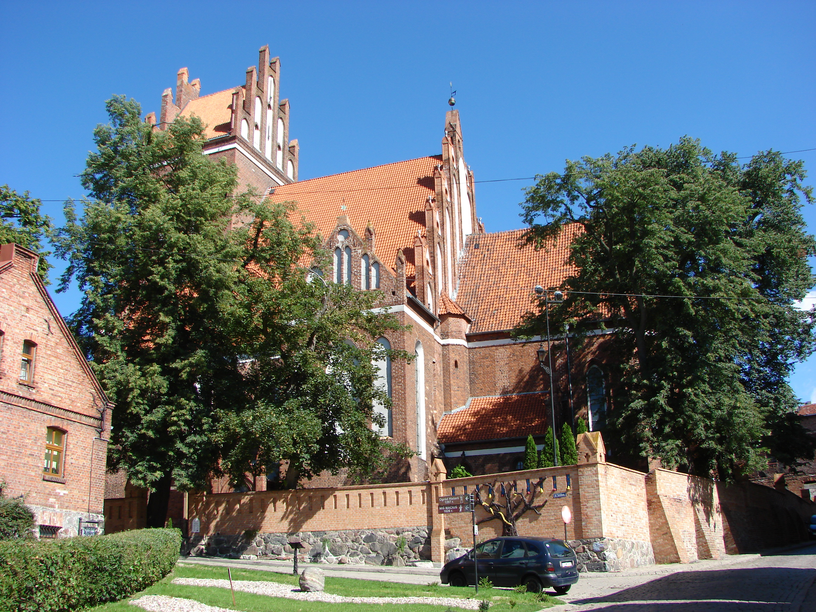 Gniew, Poland. Church of St. Nicholas. XIV century.